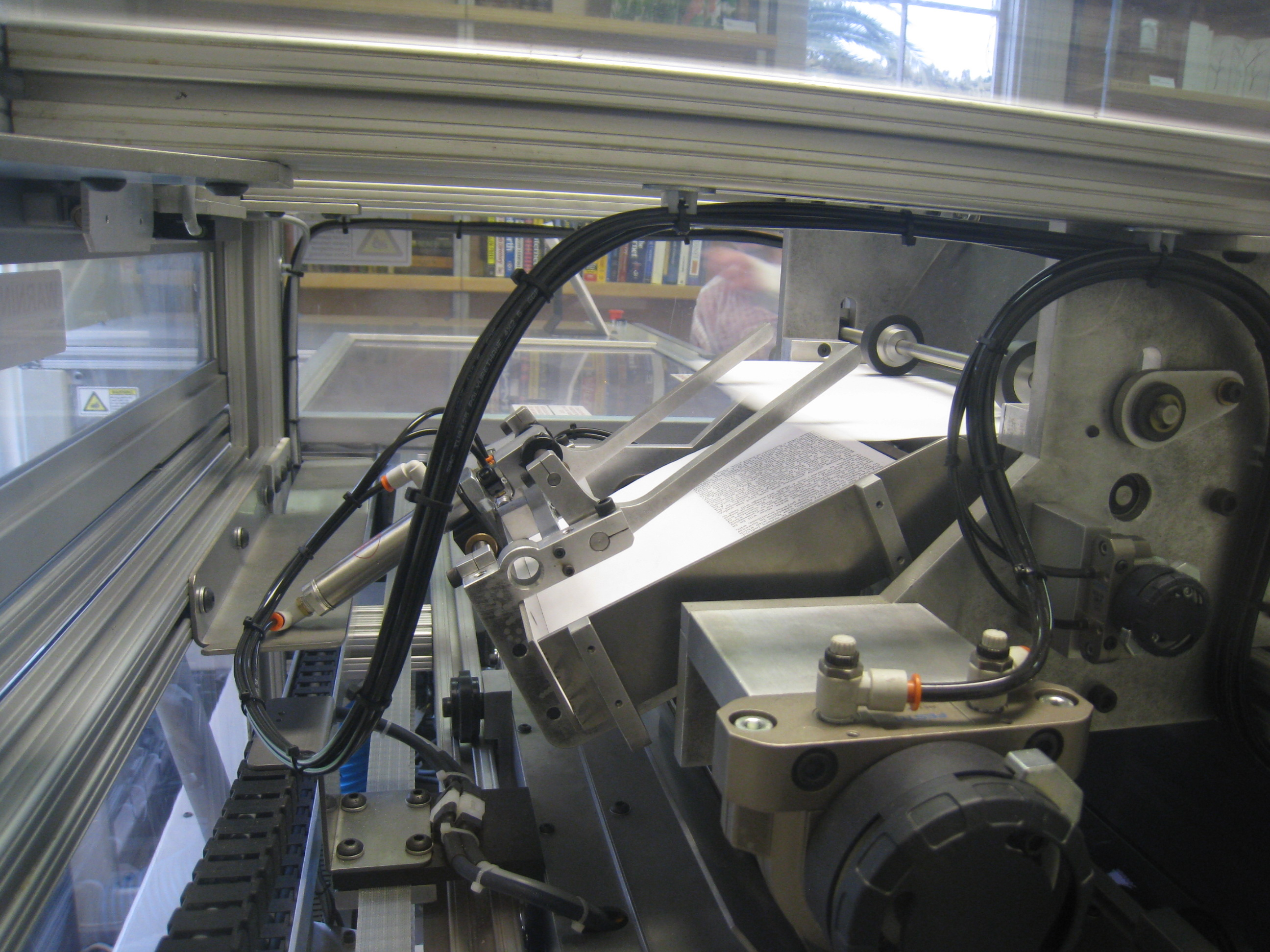 An on-demand book printer at the Internet Archive headquarters in San Francisco, California. Printed pages land in this slot, where they are tapped into an even pile by pneumatically actuated tappers on the top, side, and edge of the page.